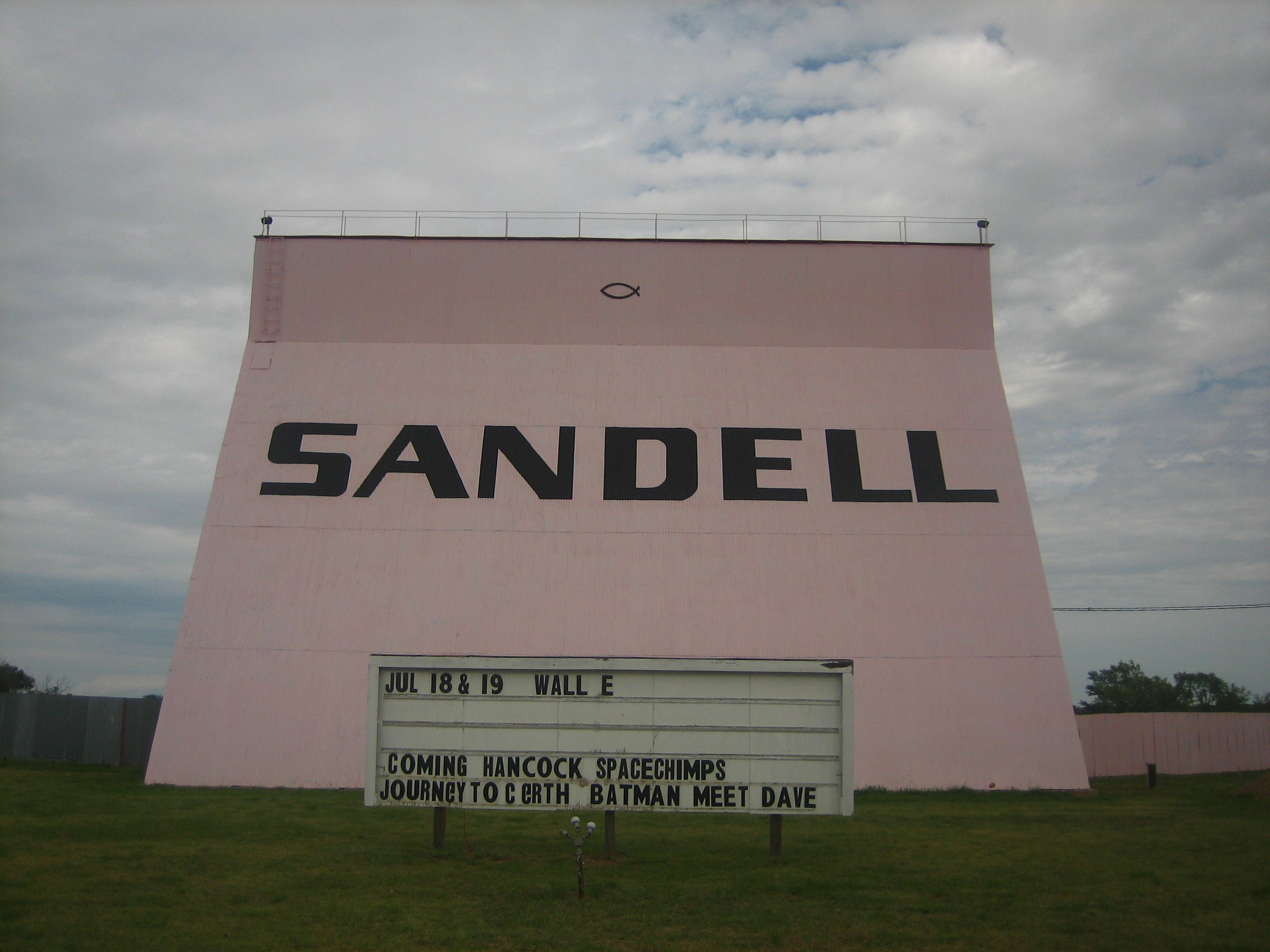 I took photo on July 15, 2008.Billy Hathorn (talk) 22:29, 22 July 2008 (UTC)